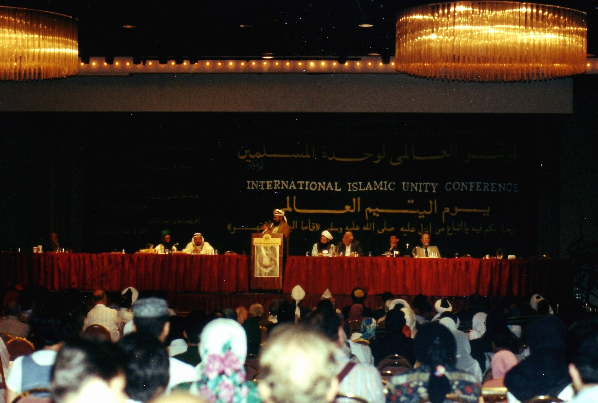 Speakers seated at the podium during the International Islamic Unity Conference at the Westin Bonaventure Hotel in Los Angeles.